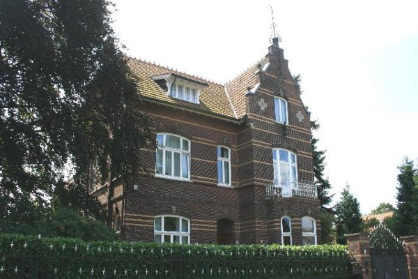 Cultural heritage monument No. 47 in Brüggen